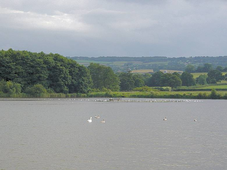 Birds on Chew Valley Lake at Herriots Bridge